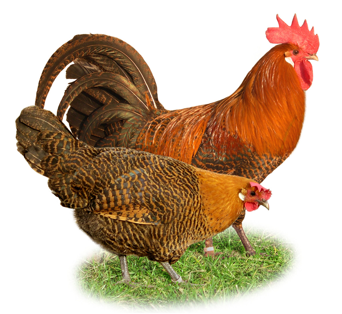 Braekel poultry. Gold variant of the breed.